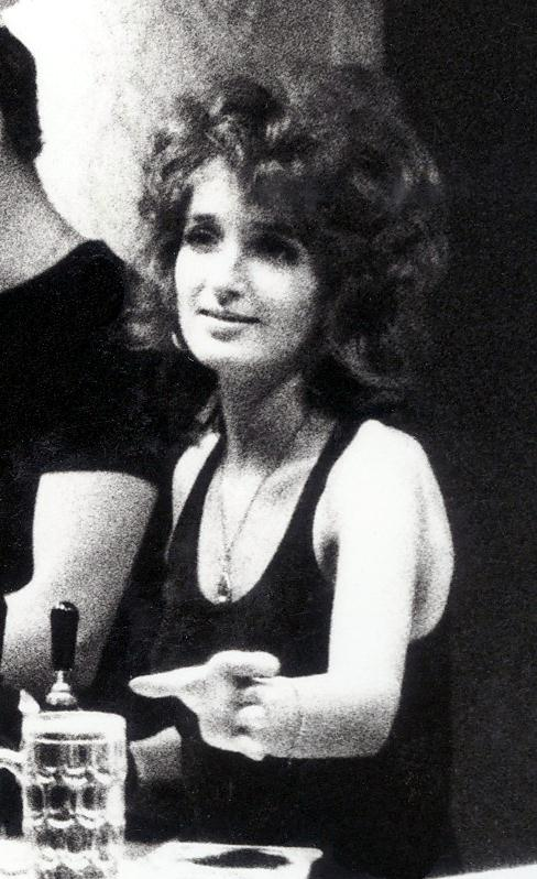 Swedish bartender and fashion consultant Elisabeth "Betsy" Hultner (Lennevald), mother of Dhani Lennevald of A-Teens, as released by image creator Lars Jacob ProdPlace: Mia, Döbelnsgatan 3, Stockholm, Sweden